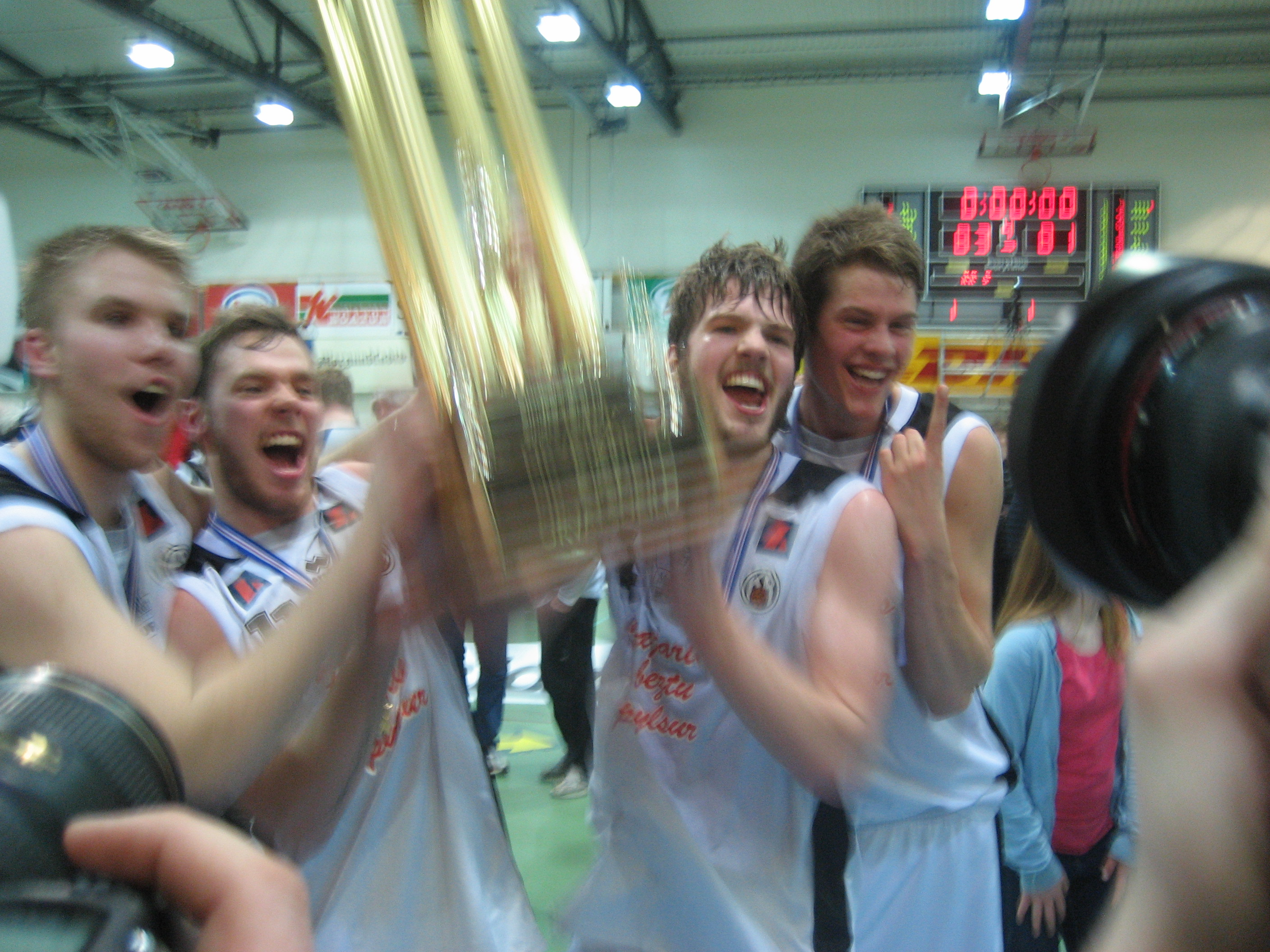 KR won the Icelandic basketball league for the 2007 season. Here we see 4 KR players celebrating. From left: Darri Hilmarsson, Ellert Arnarson, Brynjar Björnsson and Eyþór Magnússon